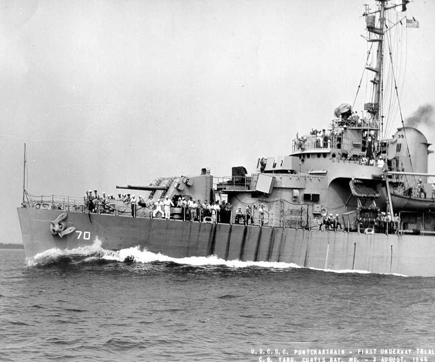 "USCGC Pontchartrain (WPG-70) on her first underway trial;" 3 August 1945; Photo No. 853; photo by Davis.